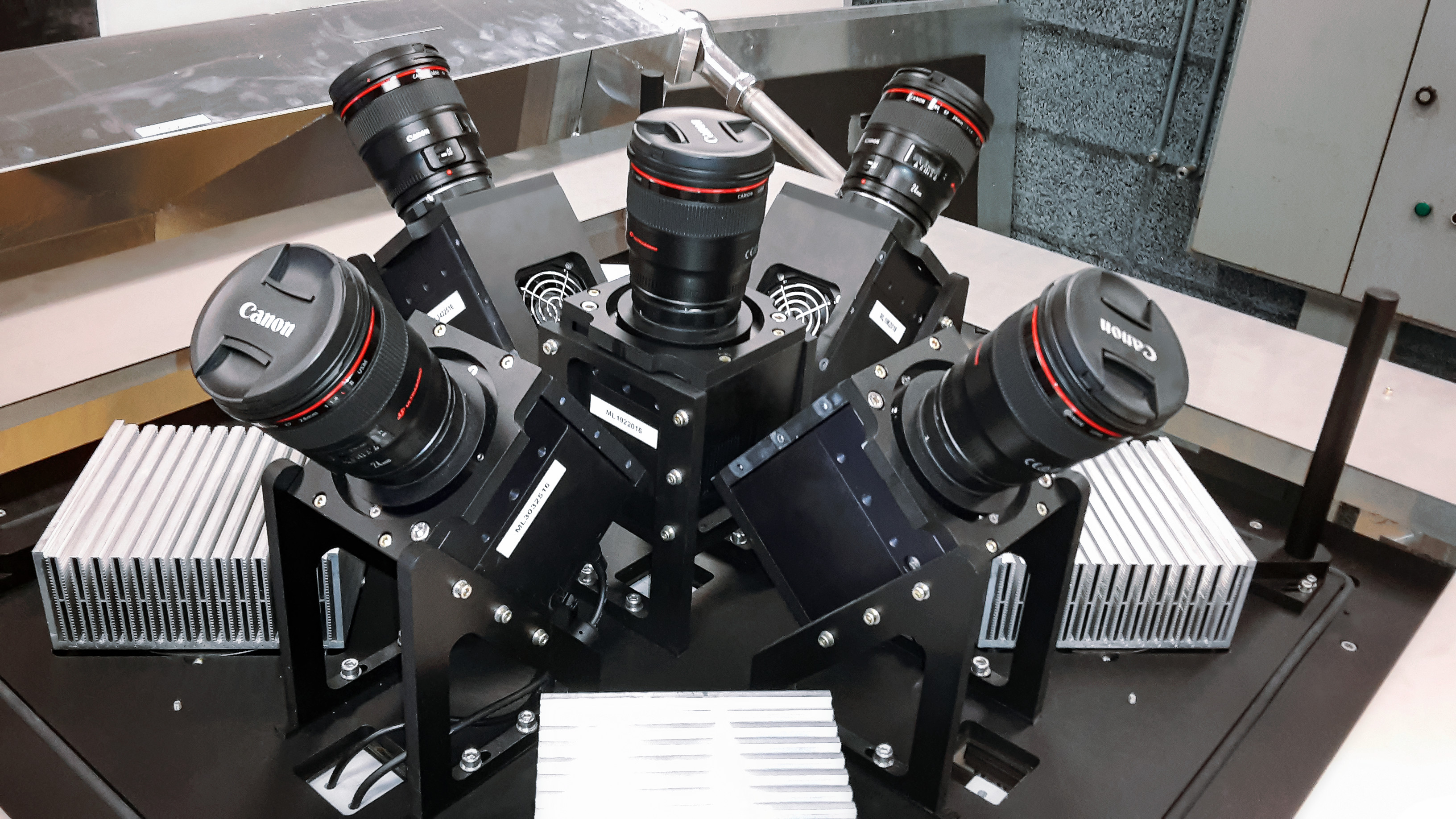 This view shows the five cameras the form the MASCARA system. Together the five wide-angle lenses allow MASCARA to image almost the entire visible sky in one go.